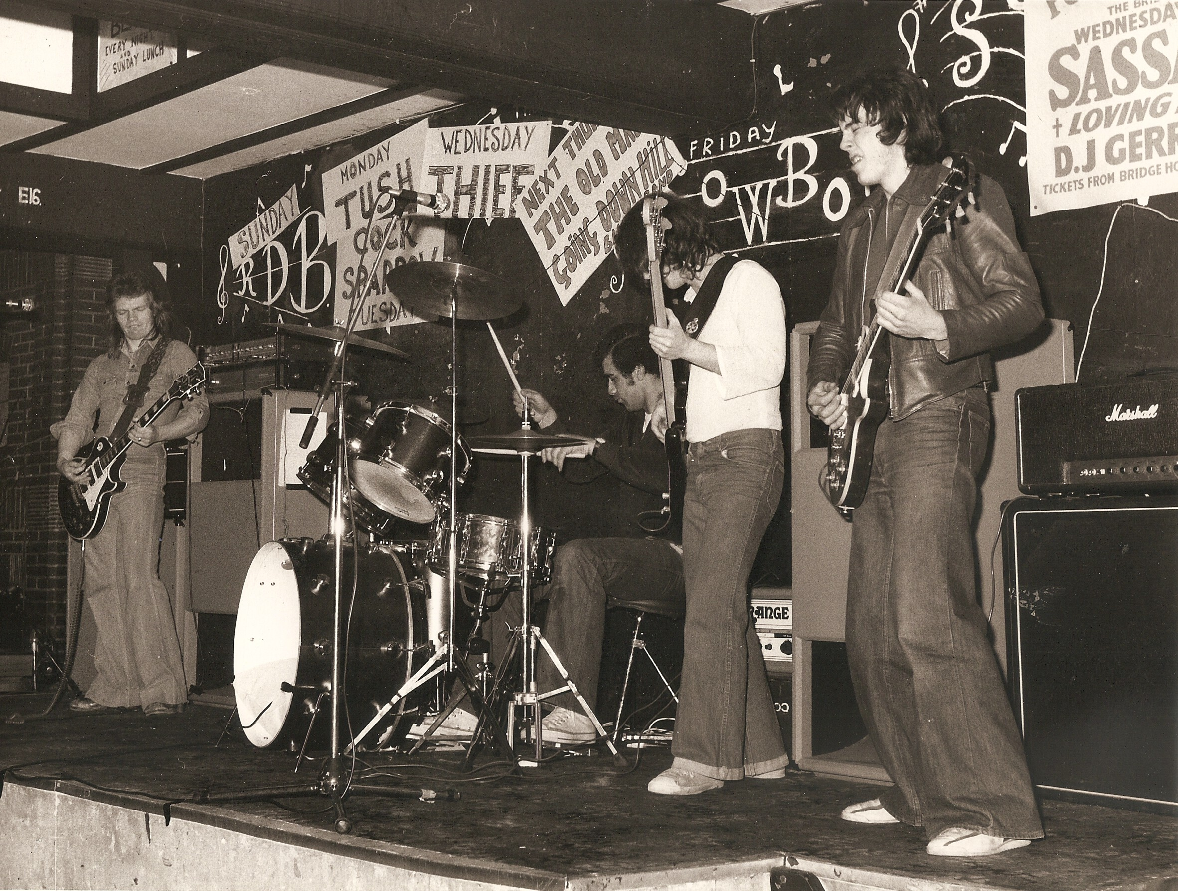 TUSH at the Bridgehouse, Canning Town, London in 1977 with George Junor, Bob White, Mickey Tickton, Tony Miles